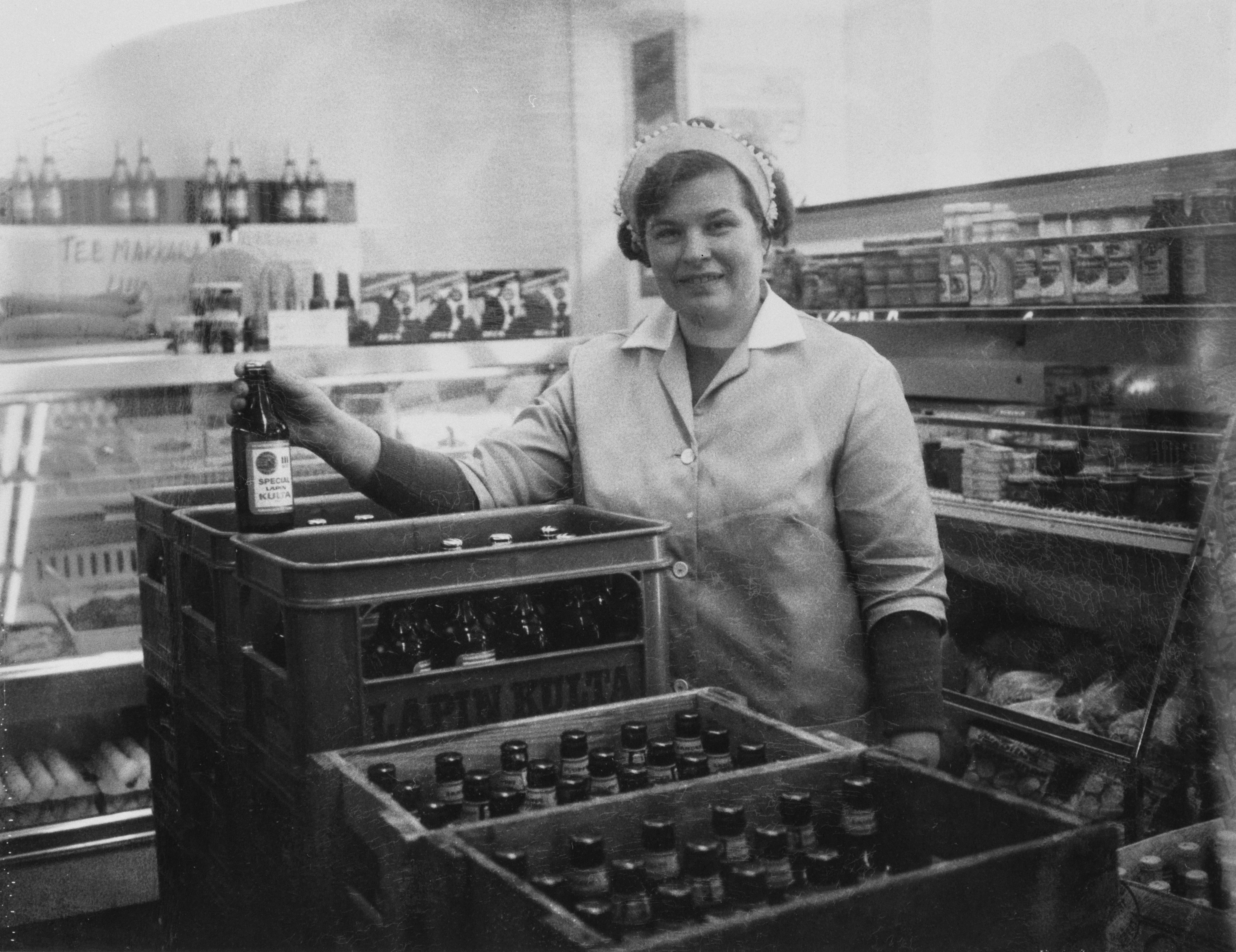 Shopkeeper Aini Lindvall shows beer in Oulu, Finland in late 1968. The sale of beer containing not more than 4,7 % alcohol by volume allowed in Finnish grocery stores from the beginning of 1969. Lindvall's shop was located at Sepänkatu 9, Oulu.